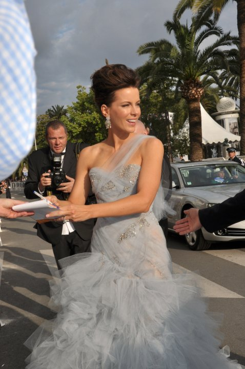 Kate Beckinsale at the Cannes film festival